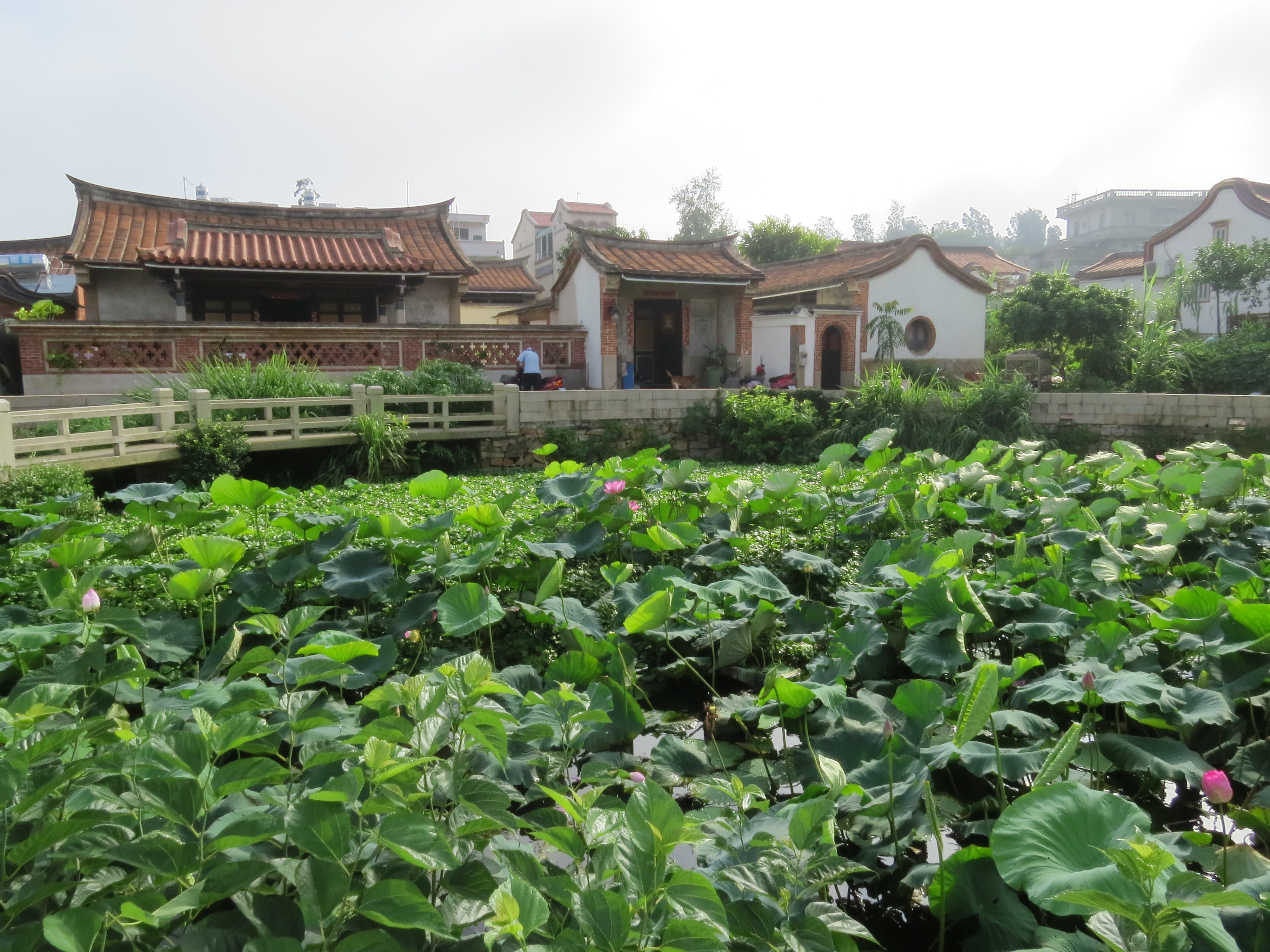 Shui Tou Huang-Shi You Tang, Kingmen